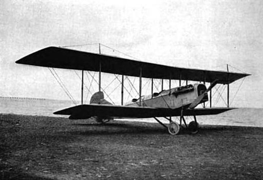 Curtis Reconnaissance Biplane Original image caption: Reconnaissance type, Curtis Biplane, 160 H.P.